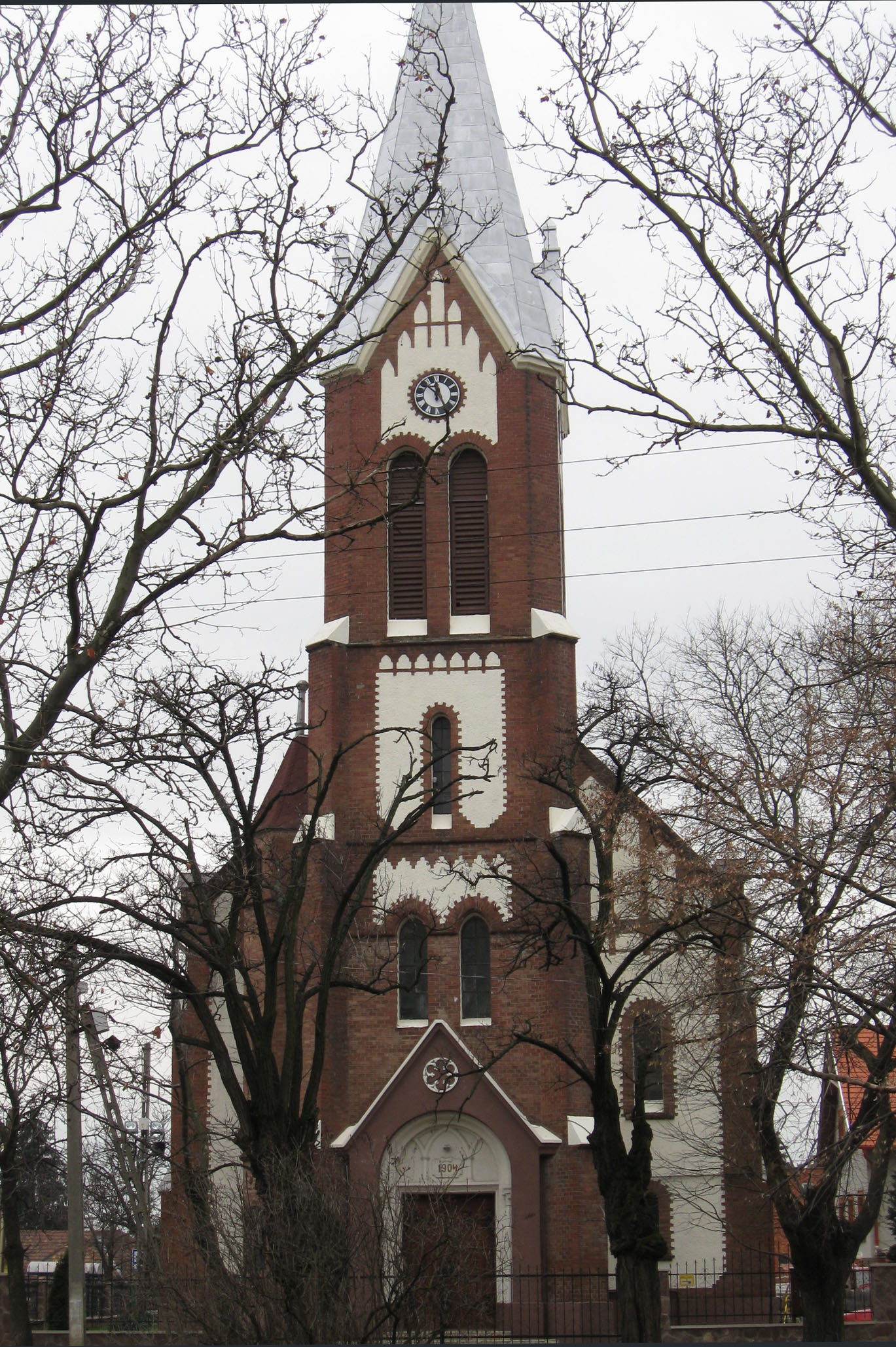 "Csaba vezér tér" church, Budapest 17th district, Hungary